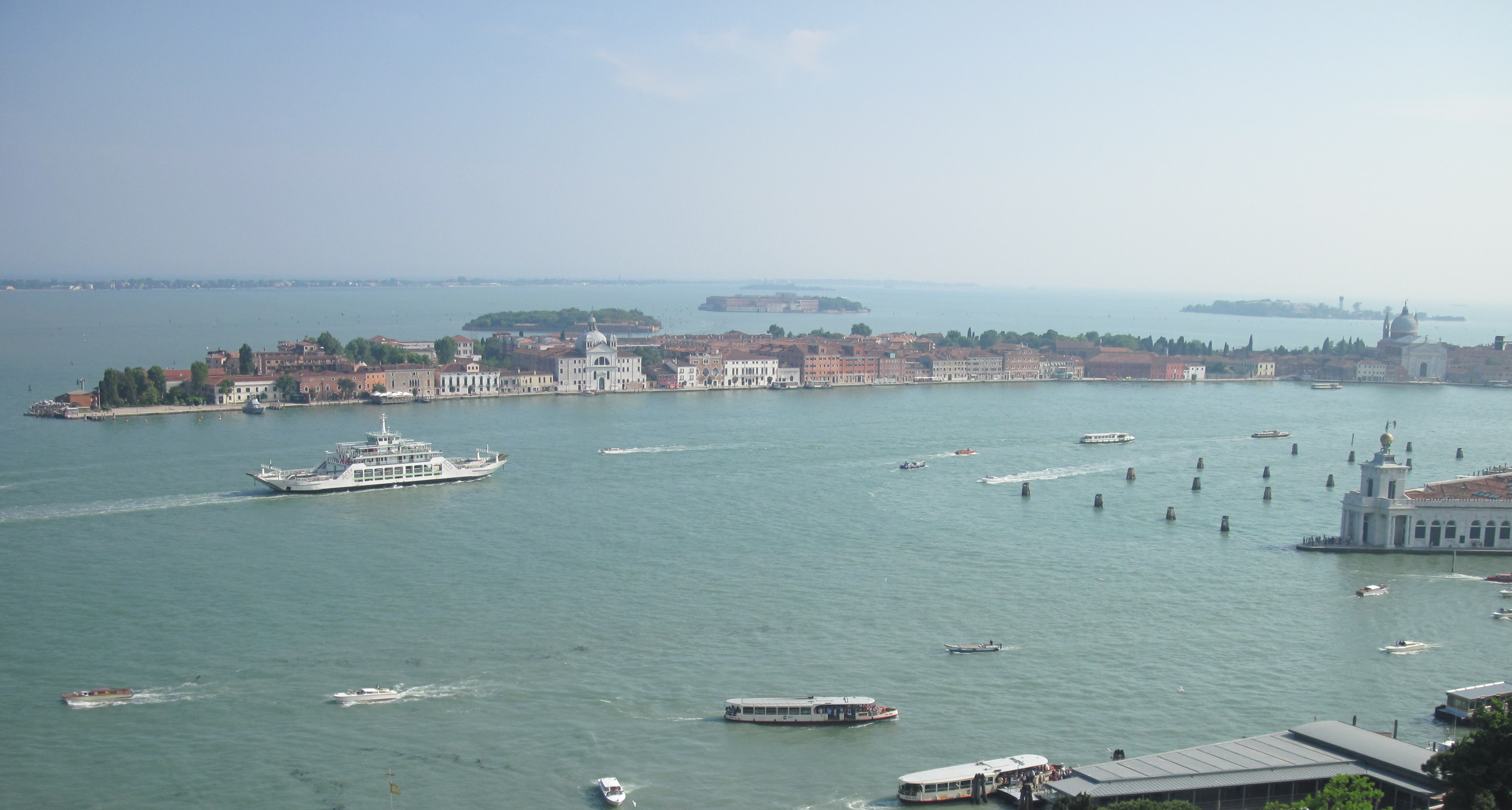 Giudecca